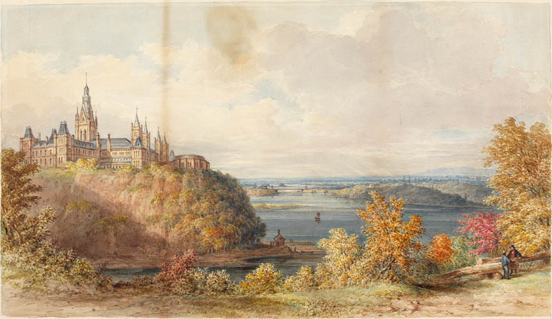 Parliament Buildings, Ottawa, Ontario, c. 1866. Watercolour on wove paper.